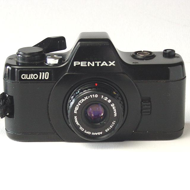 Author: Paul M. Provencher; Source: Author Created Image; URL=